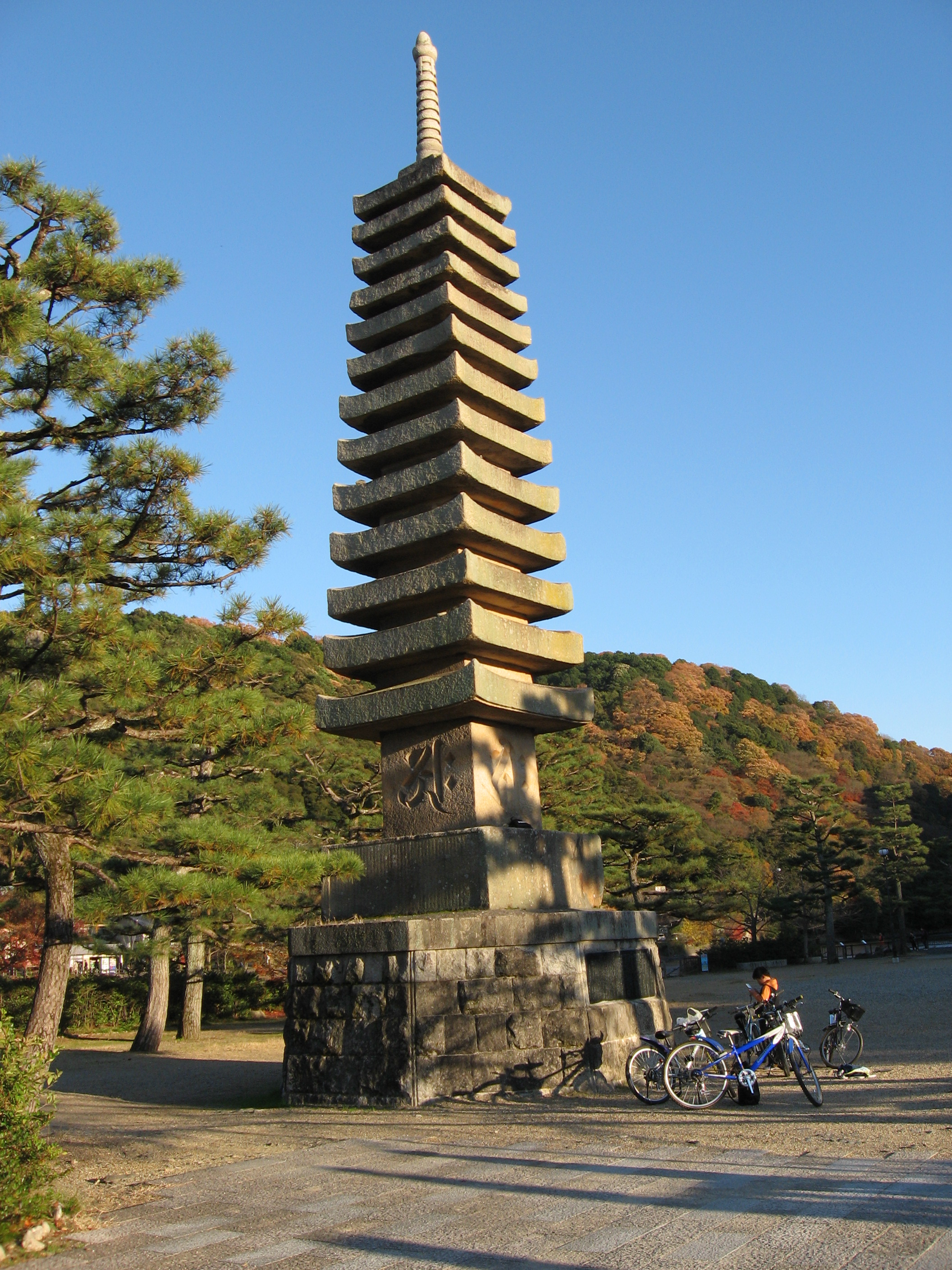 Thirteen Stairs Pagoda of Ukishima